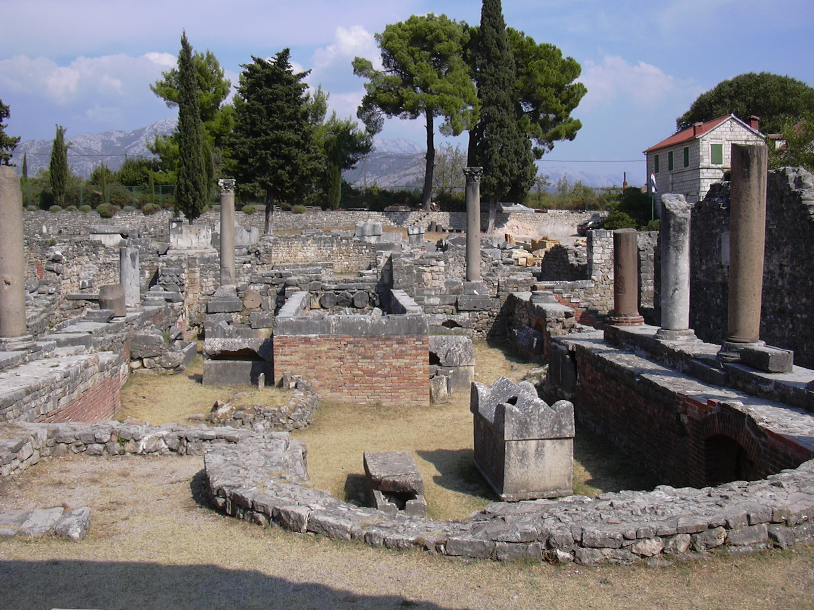 paleochristian church in Salona (Croatia)